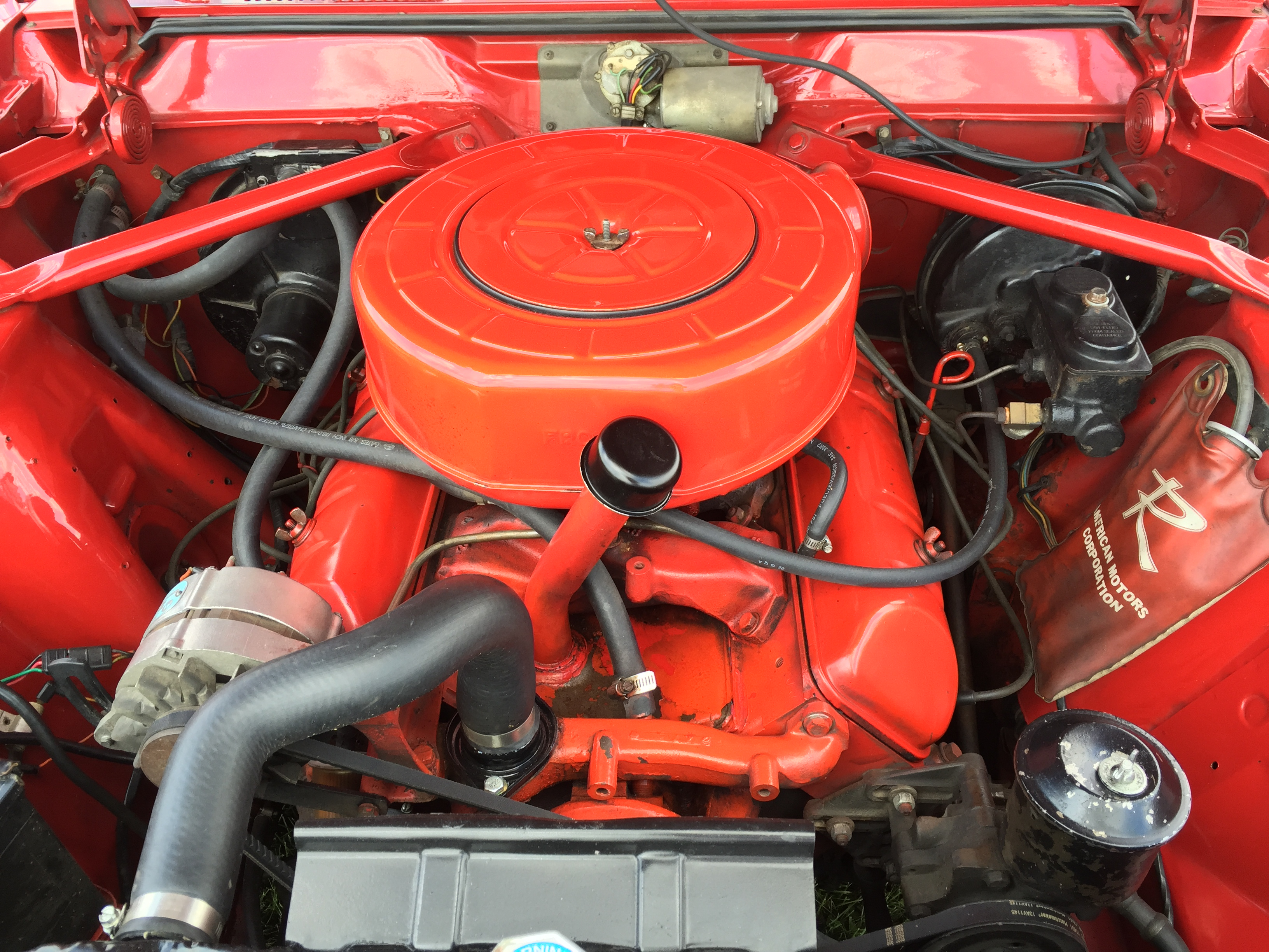 1965 Rambler Marlin, a mid-sized personal luxury car built by American Motors Corporation (AMC). This two-door hardtop (no B-pillar) body design is finished in red with black accented fastback roof. The luxurious interior is in red and features reclining front bucket seats, rear, bucket like seat with center armrest, and front center armrest with the console mounted automatic transmission. This car has AMC's wire wheel covers with twin-blade "R" spinners, and whitewall tires. Also visible are the factory front and rear bumper guards, as well as the optional AM/FM radio. This car has standard disk brakes with power assist, as well as power steering. Picture taken at the car show on Saturday, July 25, 2015, during the American Motors Owners Association (AMO) annual convention that was held near Cleveland, Ohio.